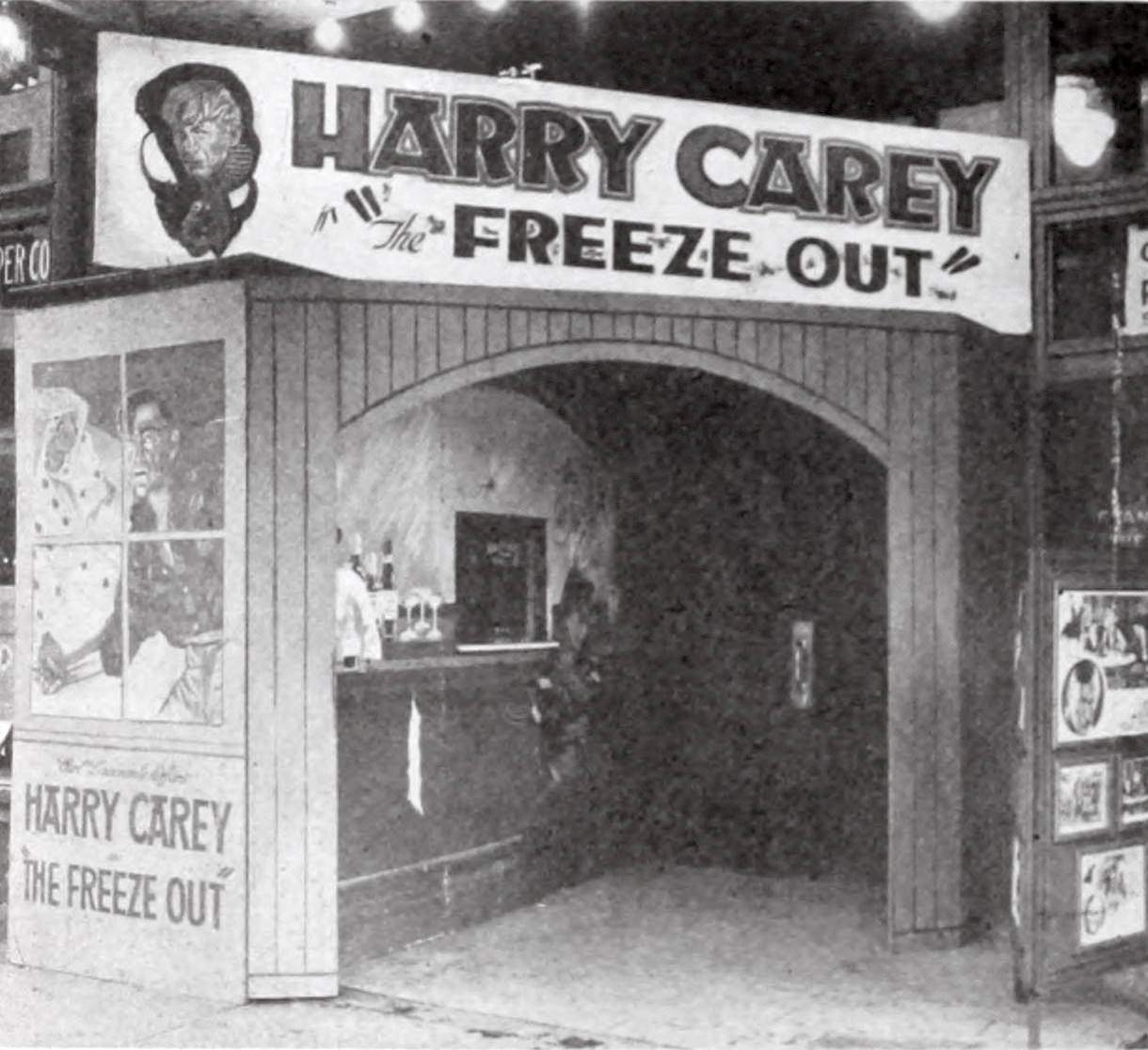 The lobby display of the Standard Theater in Cleveland, Ohio, for showing the American western film The Freeze-Out (1921) with Harry Carey, on page 56 of the May 28, 1921 Exhibitors Herald.